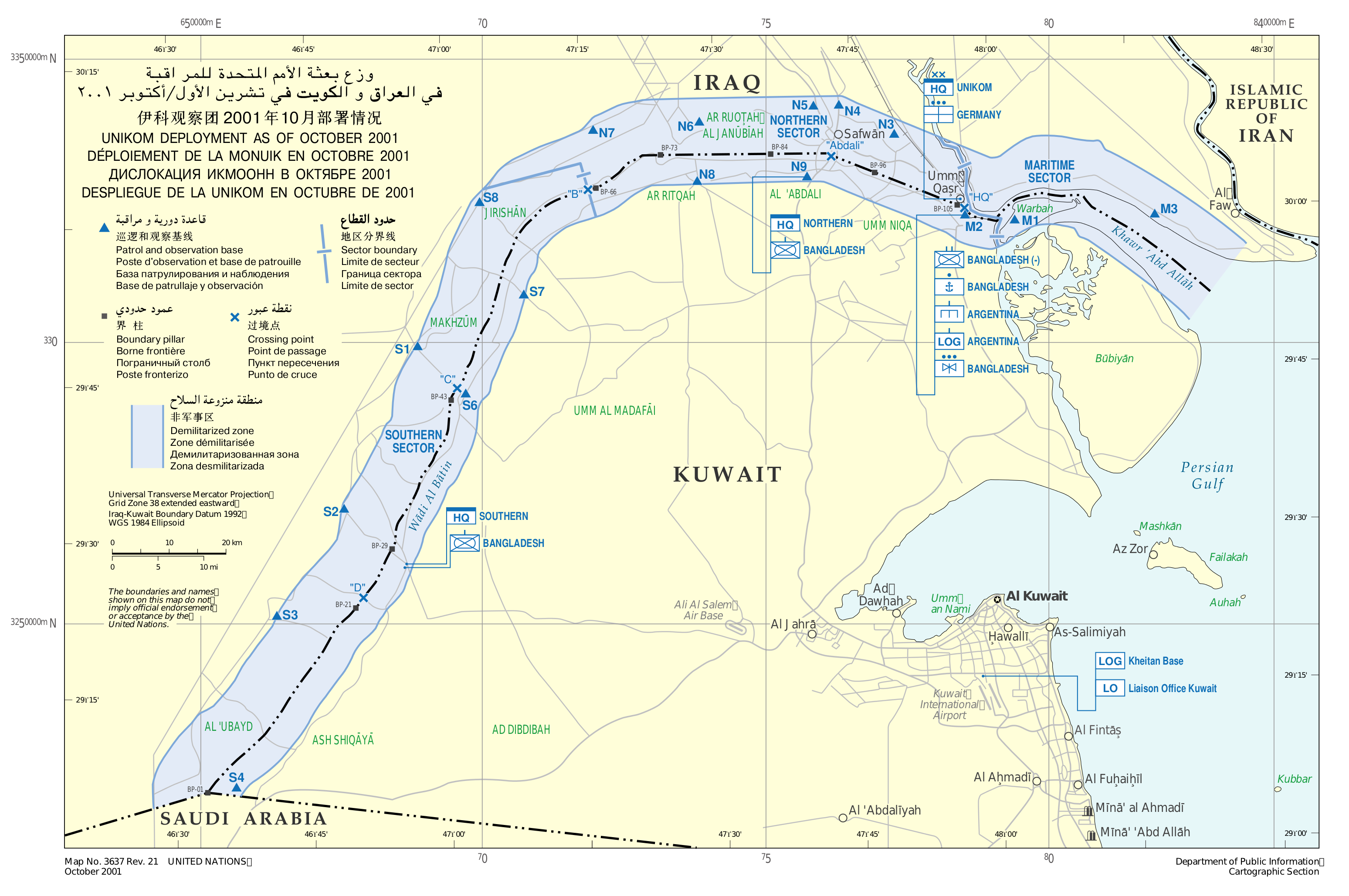 United Nations Iraq–Kuwait Observation Mission map deployment as of October 2001.